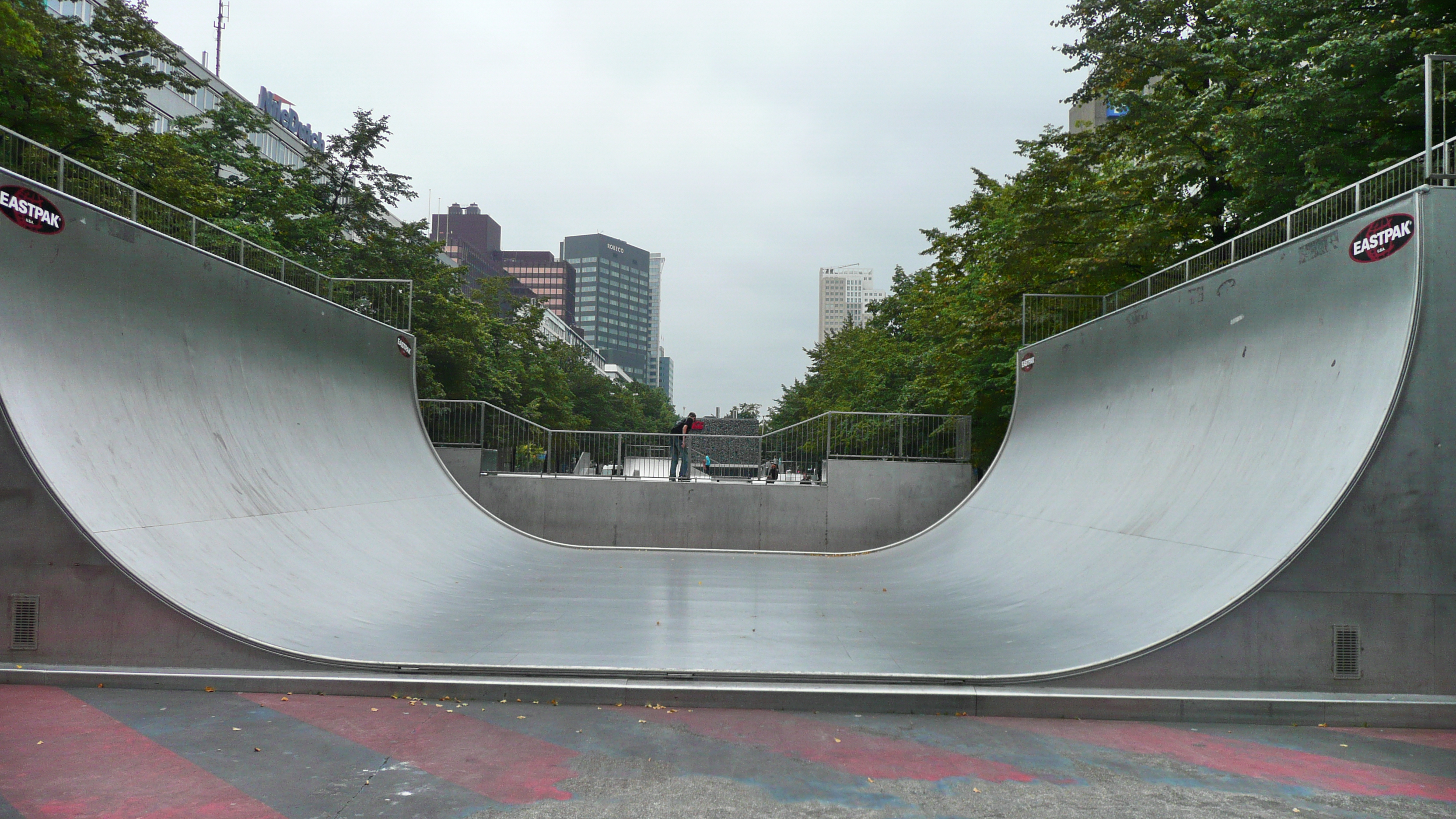 Half-pipe in a public skatepark in Rotterdam